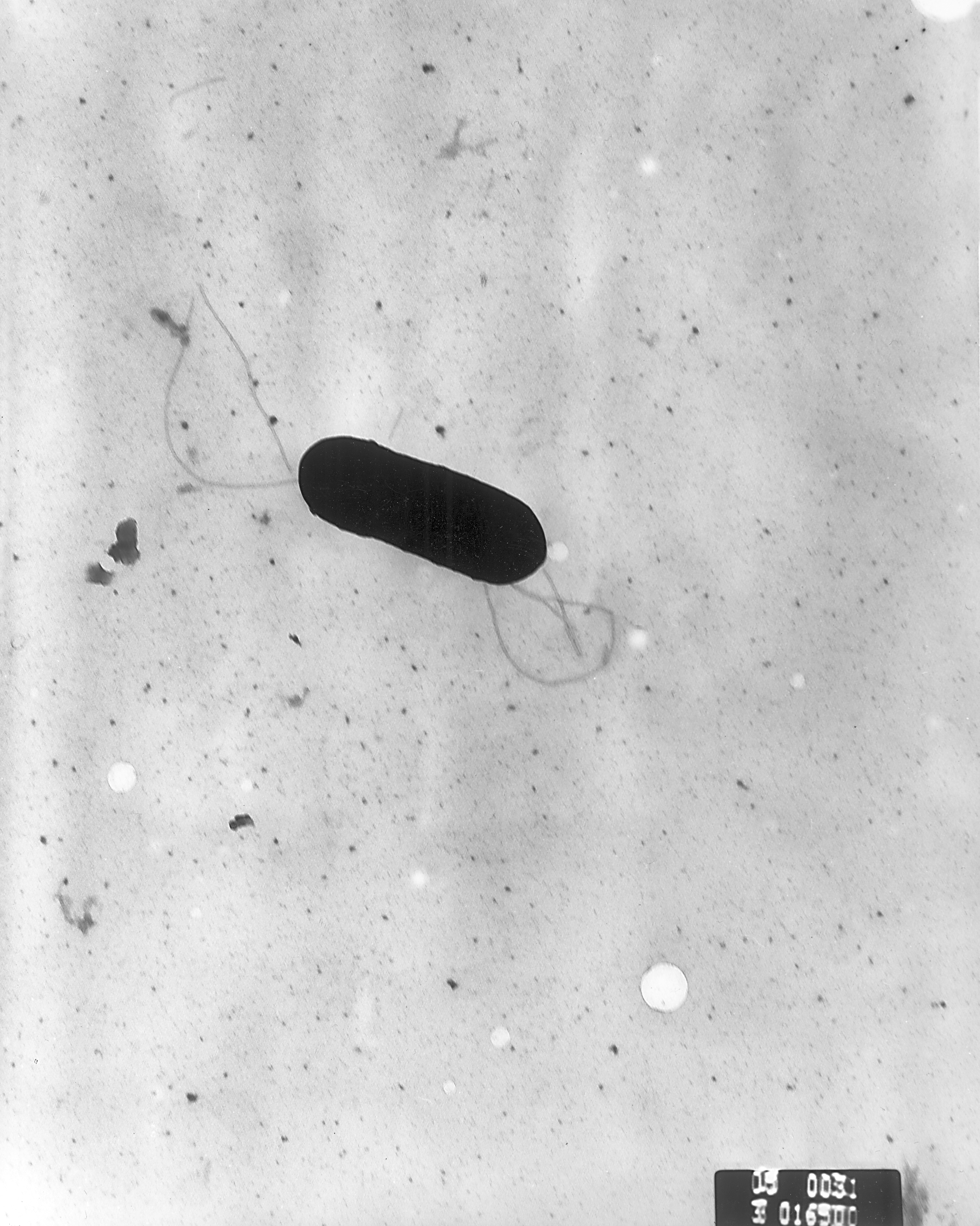 Electron micrograph of a flagellated Listeria monocytogenes bacterium, Magnified 41,250X. Listeria monocytogenes is the infectious agent responsible for the food borne illness Listeriosis. In the United States, an estimated 2,500 persons become seriously ill with listeriosis each year. Of these, 500 die. Typical size of Listeria: rods 0.4 by 1 to 1.5 µm